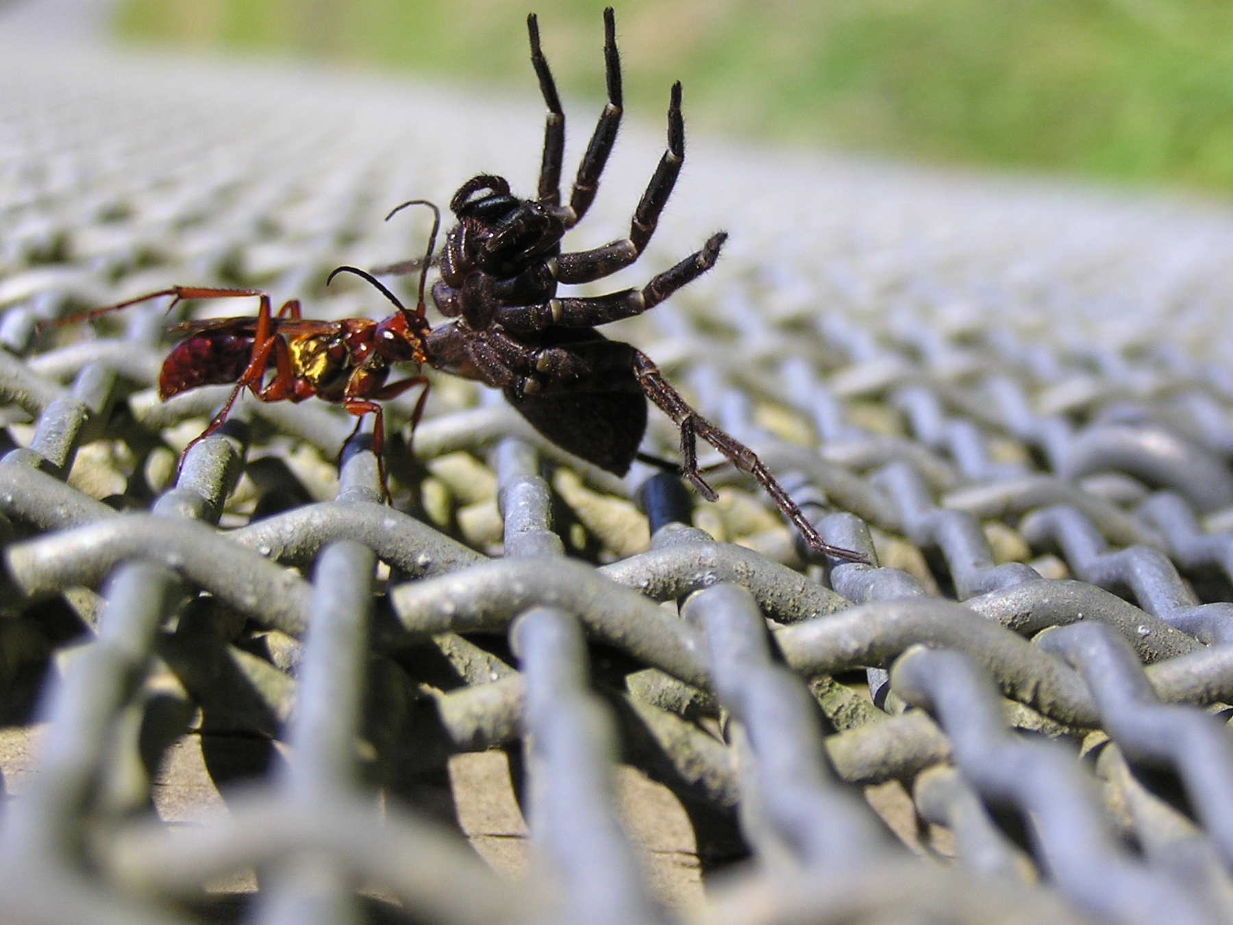 Golden Hunting Wasp dragging paralysed spider to its nest. Background fence scale